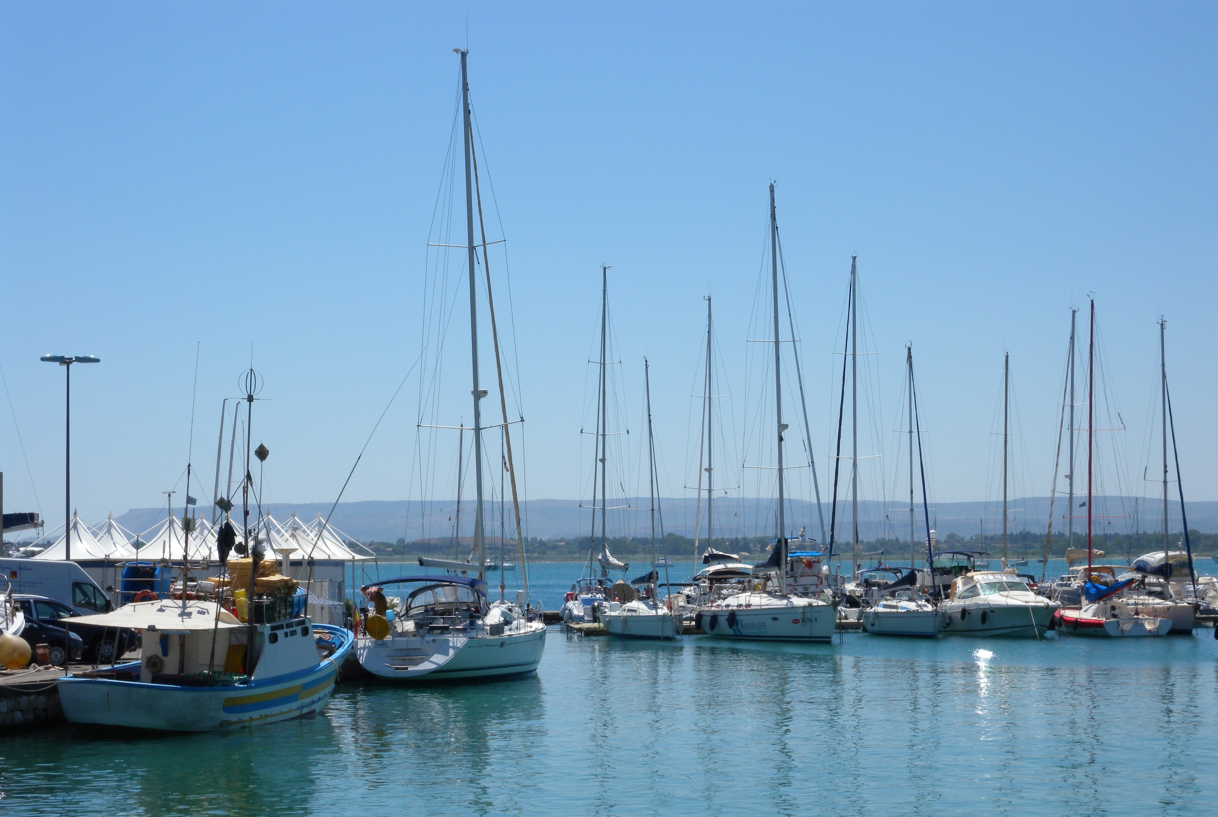 Syracuse, Sicily